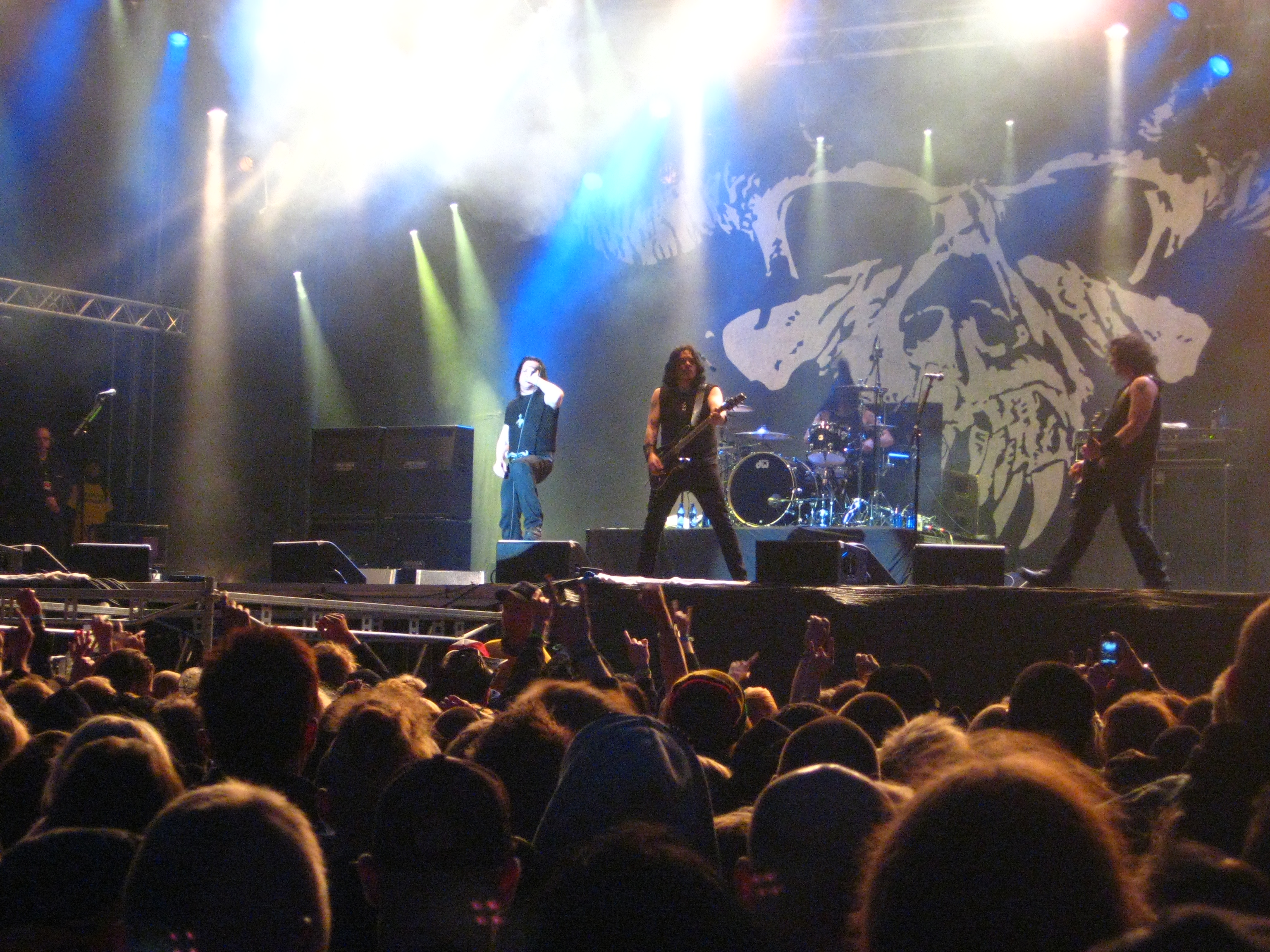 Metal band Danzig at Sweden Rock 2010